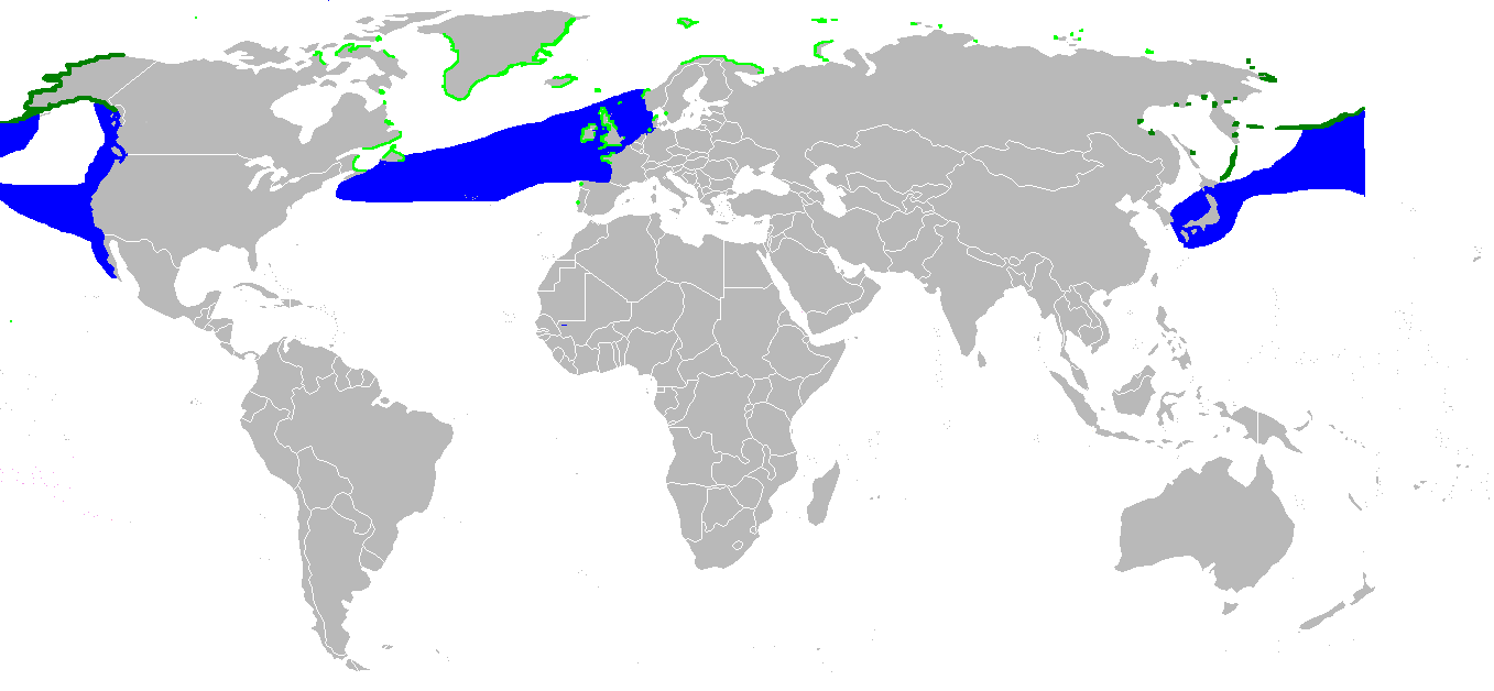 Black-legged Kittiwake Rissa tridactyla, distribution. Bright green = breeding range of R. t. tridactyla Dark green = breeding range of R. t. pollicaris Blue = main wintering areas